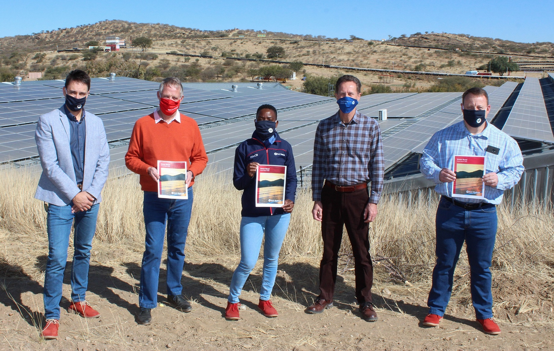 Supporting sustainable energy projects: From left, Bank Windhoek’s Manager of Sustainable Investments and Deal Origination, Ruan Bestbier; Rent-a-Drum’s Chief Executive Officer, Gys Louw; the Bank’s Corporate and Institutional Banking’s Account Executive, Gloria Kapingana; Rent-a-Drum’s Recycling Facility Manager, Abraham Reinhardt and Bank Windhoek’s Manager of Corporate/Commercial Business, Specialist Finance Division: Vehicle and Asset Finance, Riaan Gouws. Behind them is Rent-a-Drum’s 308 kilo-watt Power (KWp) - Grid-Tied Rooftop Solar Photovoltaic System, which was funded through Bank Windhoek’s Green Bond Funding Facility.